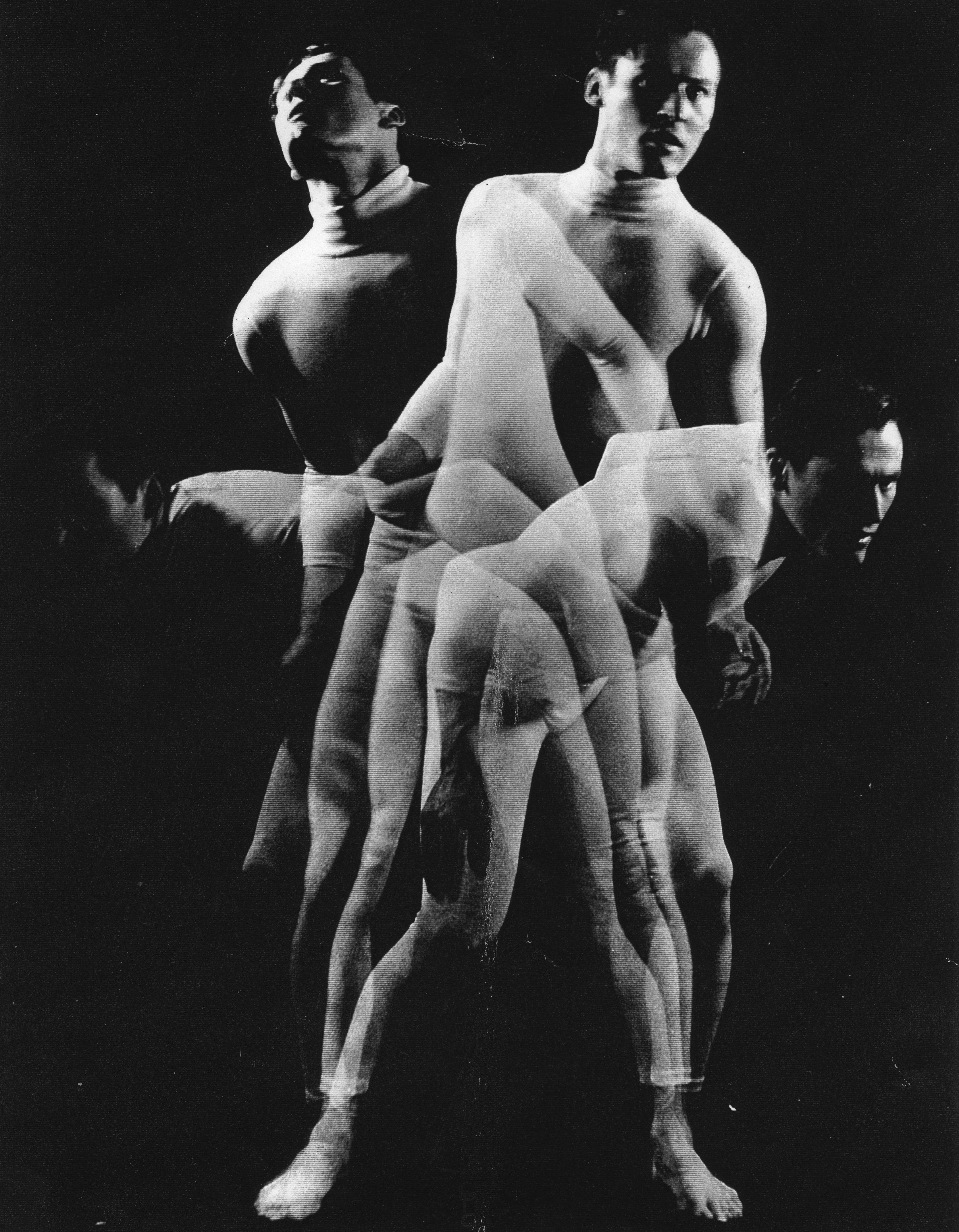 Stuart Hodes, FLAK, 1952